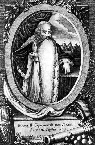 Portrait of Count Djordje Branković